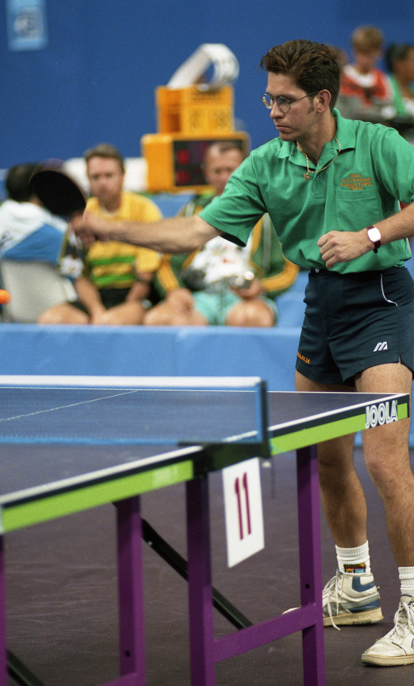 Australian table tennis player Csaba Bobary at the Barcelona 1992 Paralympic Games.